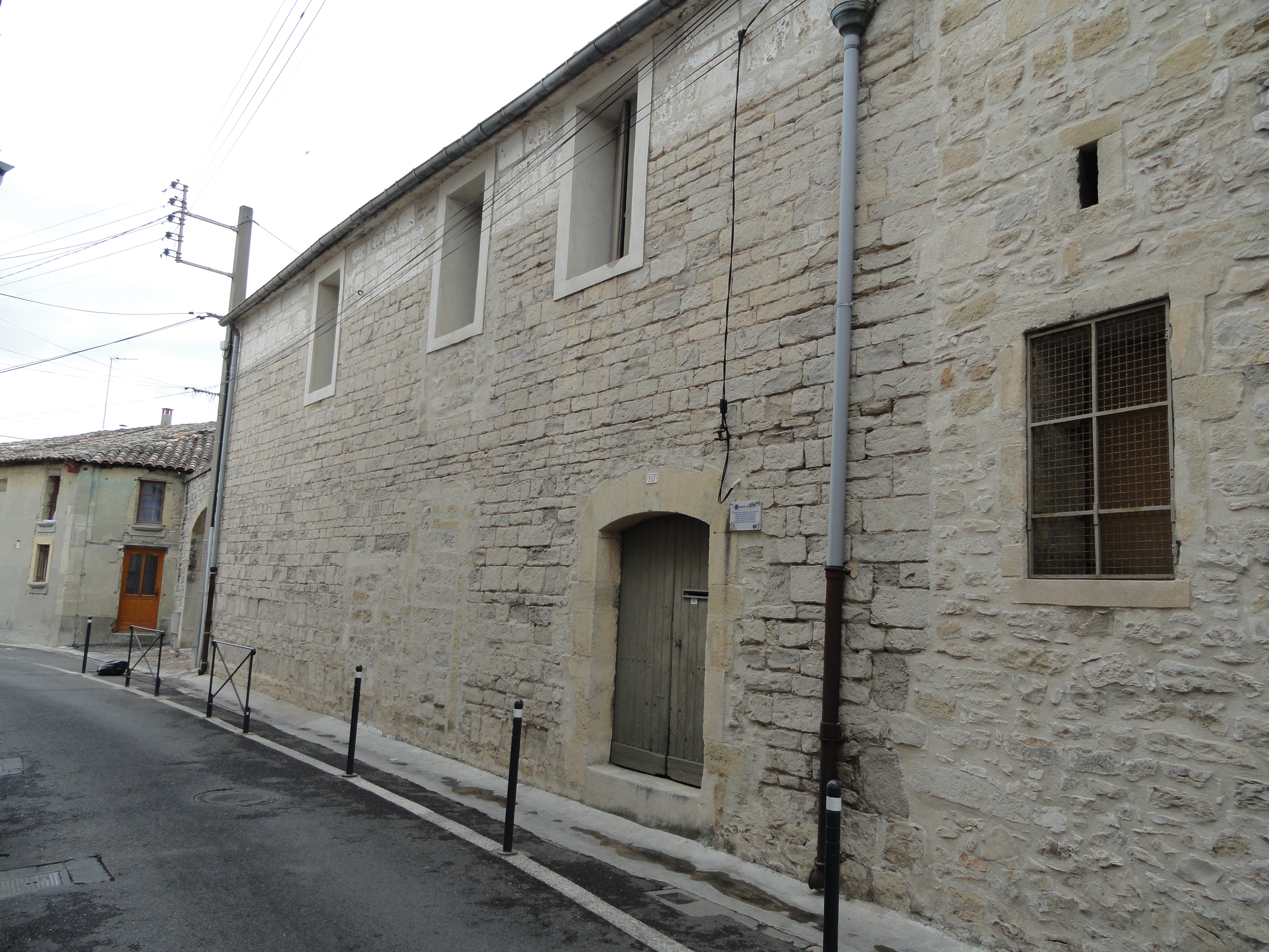 Wall, the only remaining part of the medieval synagogue of Lunel, Hérault, France.